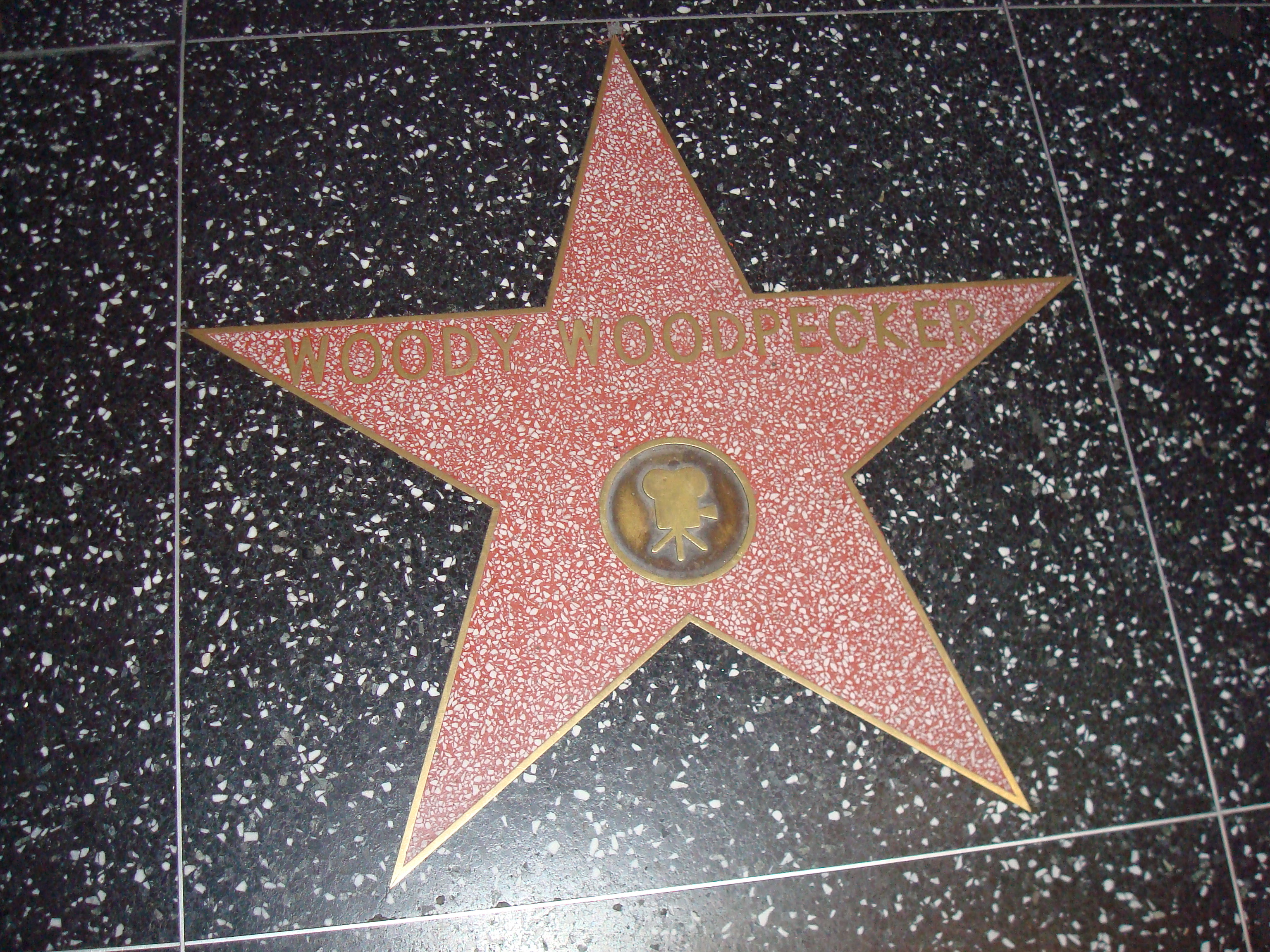 Woody Woodpecker's star on the Hollywood Walk of Fame in Hollywood, Los Angeles, California.